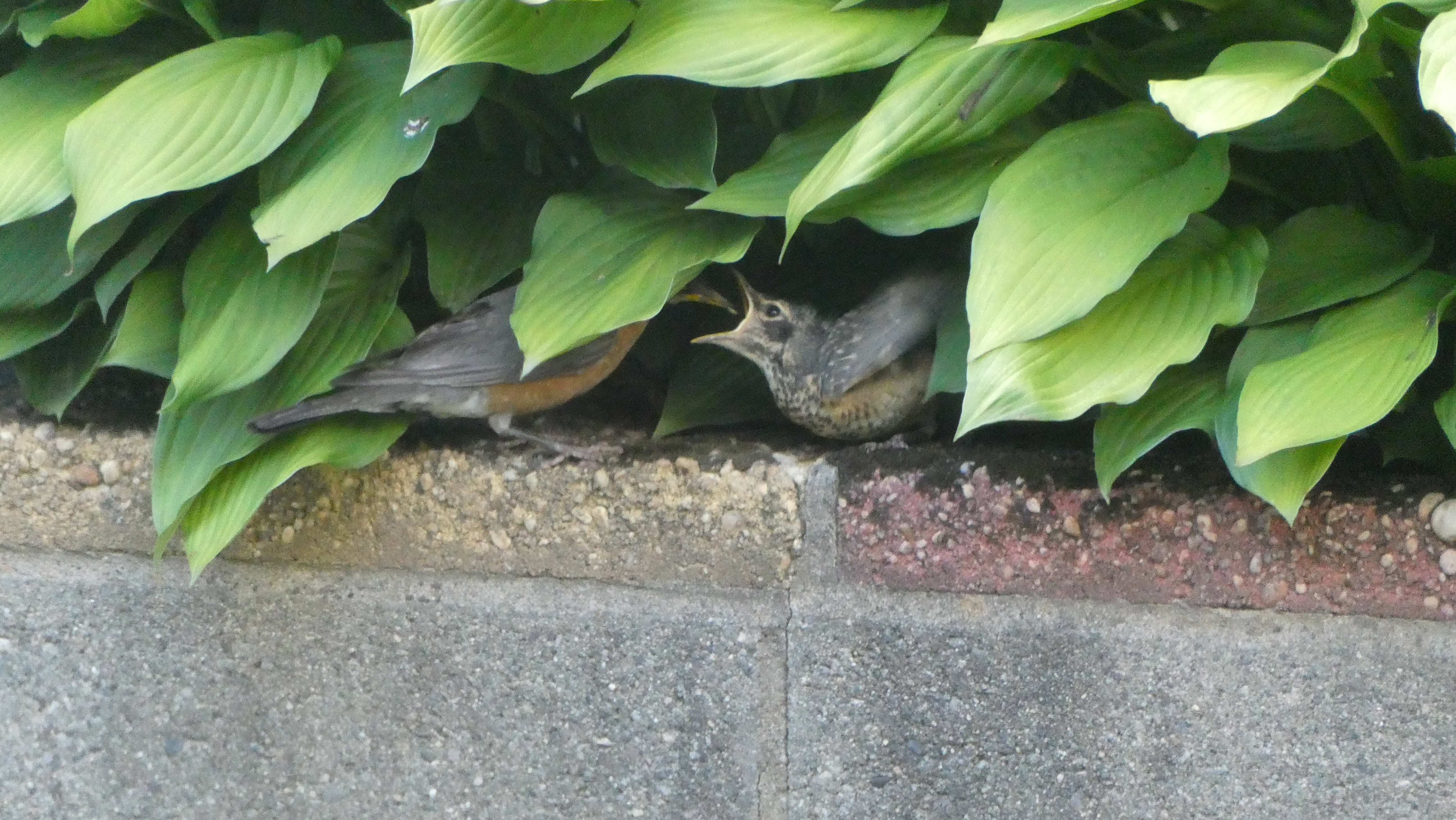 On the twentieth day after flying off, the juvenile is getting food from parent.